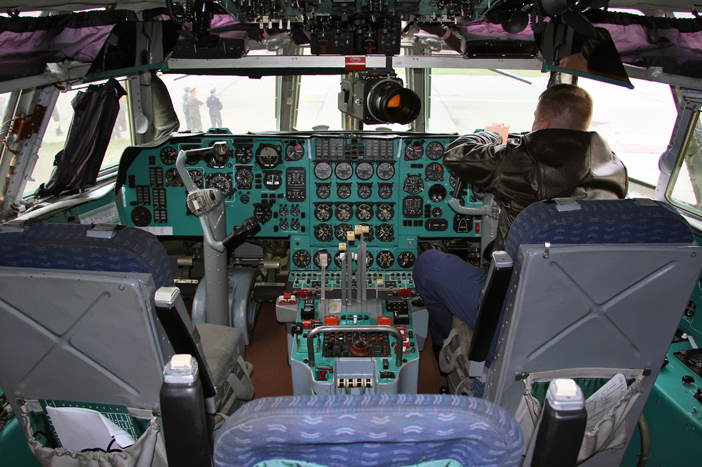 IL-98 Midas aerial refueling tanker cockpit from 203rd Guards Air Refueling Regiment on 43rd Centre for Combat Application and Training of Aircrew for Long Range Aviation airfield. Ryazan region, Dyagilevo airbase.